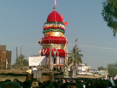 Kottur Rathotsav Picture